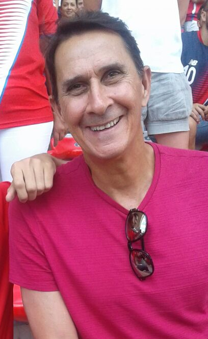 Alexandre Guimarães attending the Costa Rica vs. Northern Ireland match. June 3, 2018.